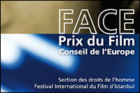 Council of Europe Film Award